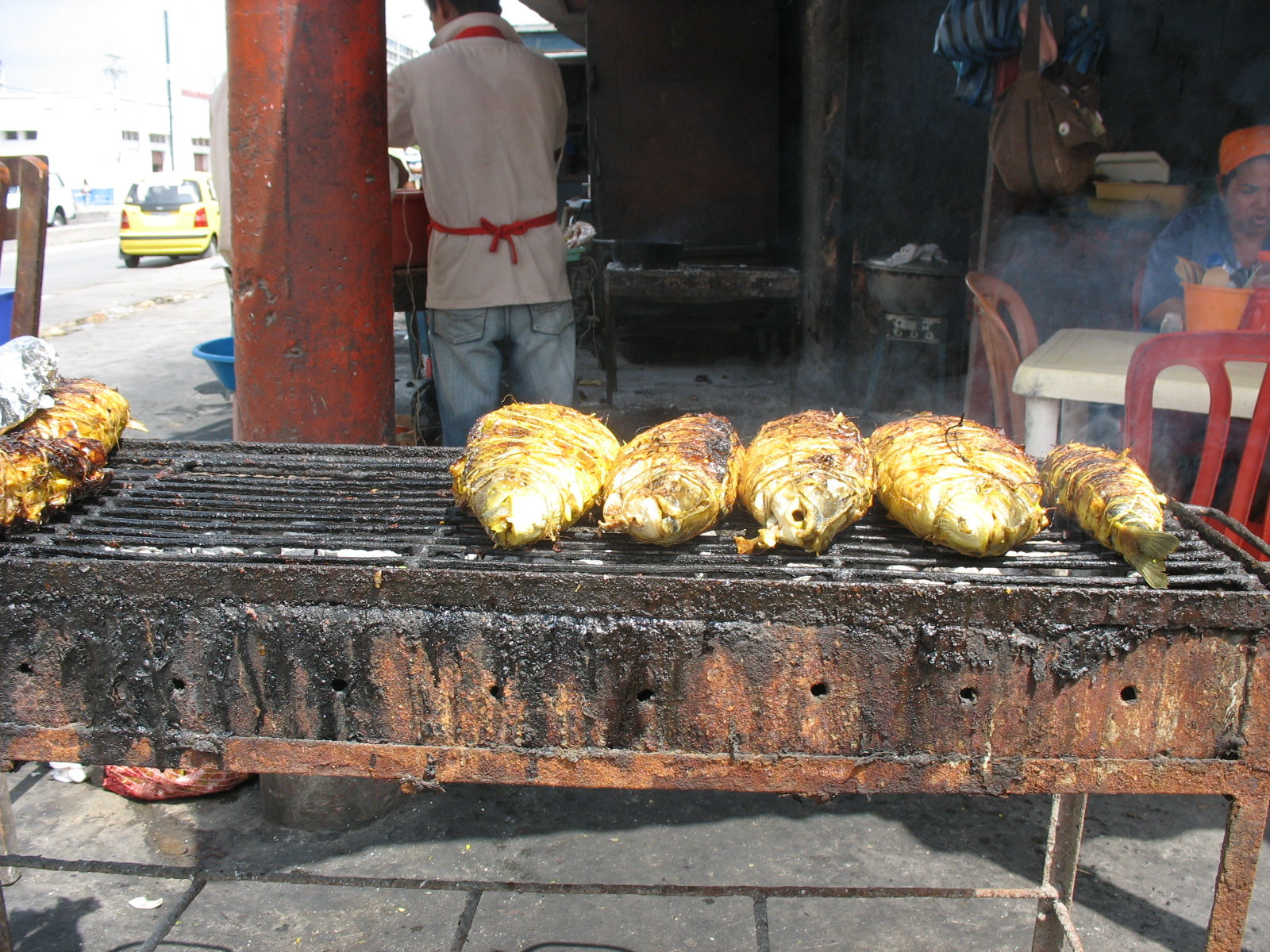 Bocachicos en cabrito